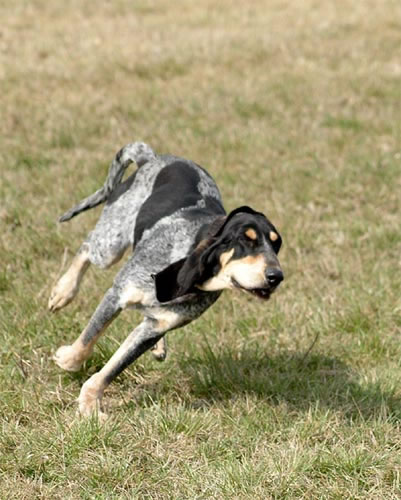 Small Blue Gascony Hound, female "Clea z Beckova" from kennel "Le Bleu Cardinalis FCI", Poland. The owner - Katarzyna Bujko